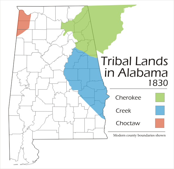 A map of Native American tribal holdings in Alabama in 1830 with modern county boundaries. Map source data was taken from Fenner, Sears, and Co. "Map of the states of Alabama and Georgia", published 1831. Map was created by Lissoy.